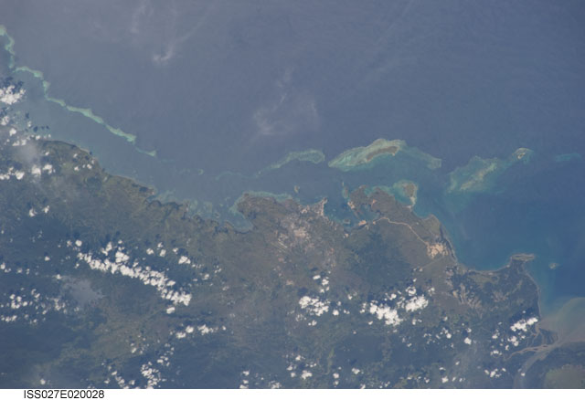 Astronaut Photo of Port Moresby, Papua New Guinea taken from the International Space Station (ISS) during Expedition 27 on May 2, 2011.